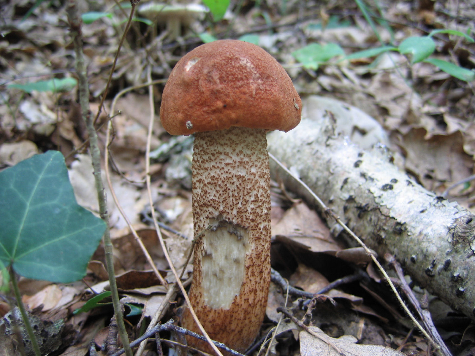 Leccinum aurantiacum